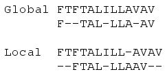 Comparison of global and local sequence alignments (this is only an illustration, not actual alignment results)